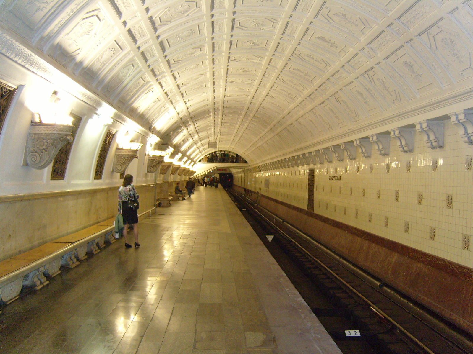 Station of Moscow Metro "Belorusskaya" (Koltsevaya Line)